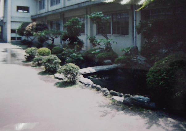 pond of Chiyo Elementary School